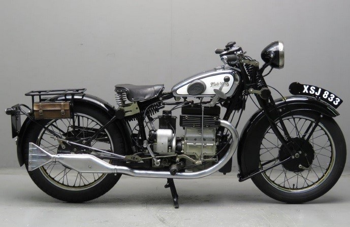 Matchless Silver Arrow 400 cc side valve V-twin 1930